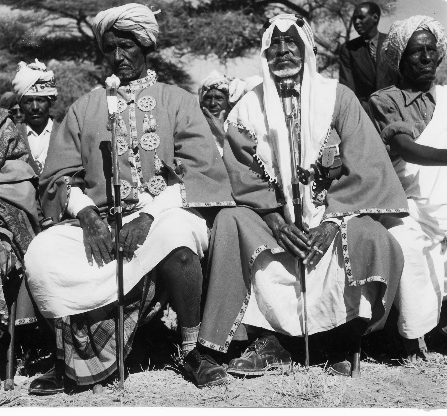 Chieftains of the Isaaq clan in Hargeisa, Somaliland